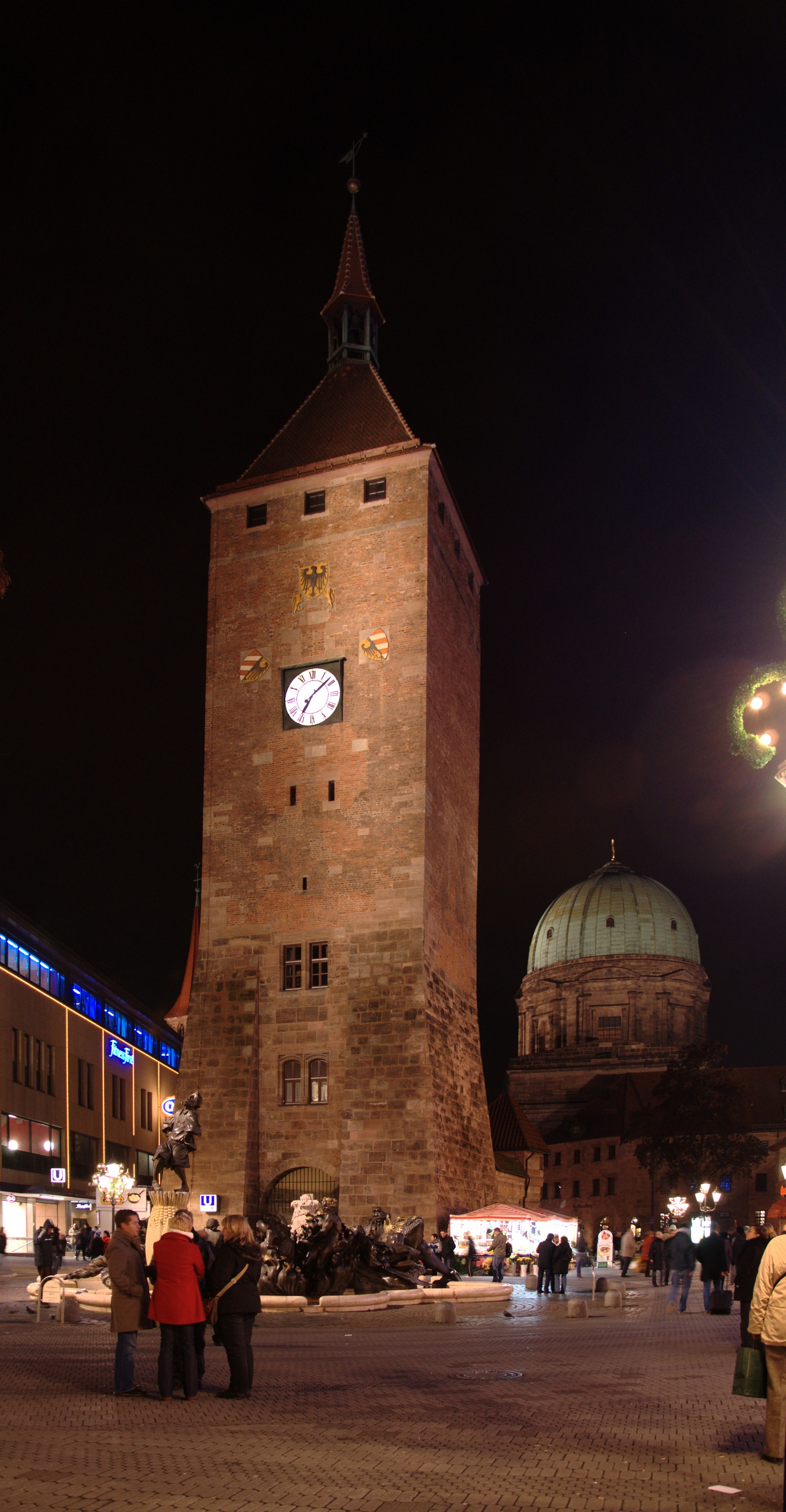 The Weiße Turm (white tower) in Nuremberg